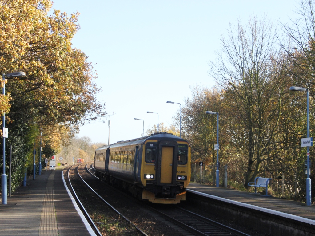 156409, working a National Express service from Saxmundham to Ipswich, calls at Westerfield station in Suffolk.